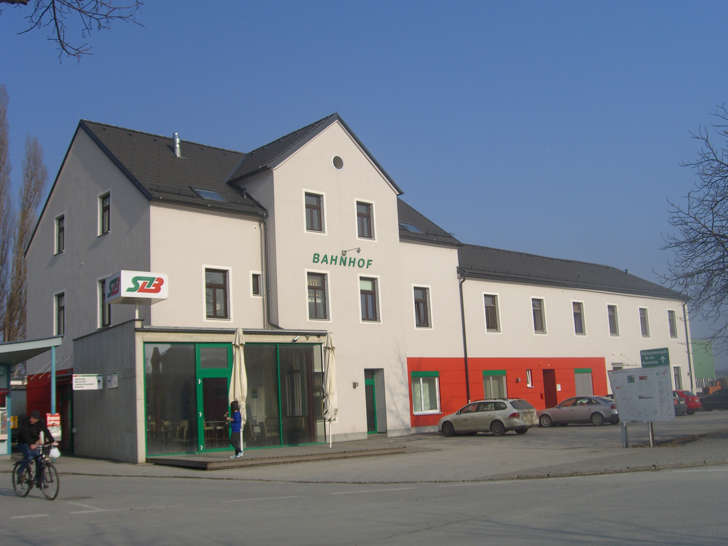 Train station in Weiz, state of Styria, Austria (run by Styrian state railways).